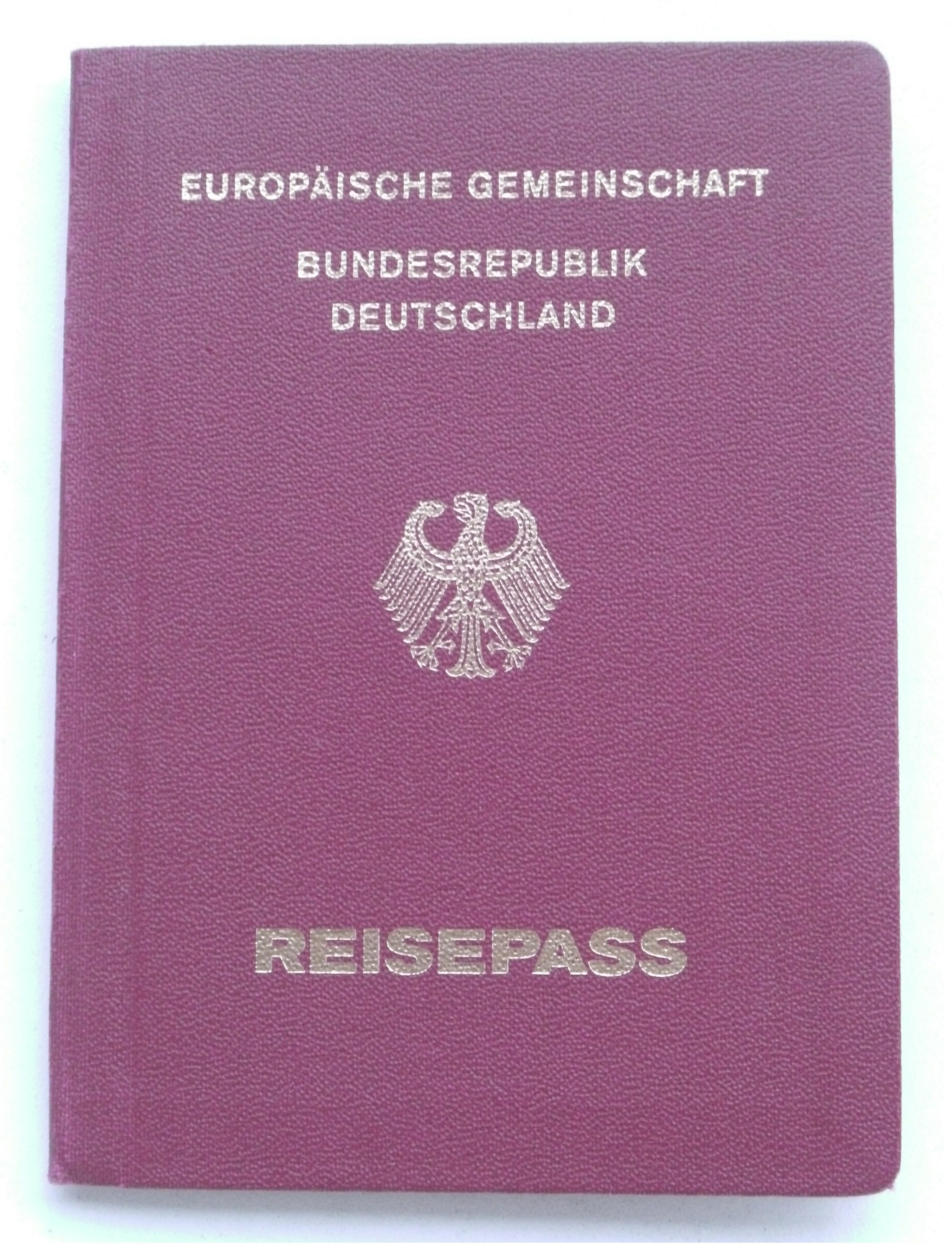 German Passport, issued 1994